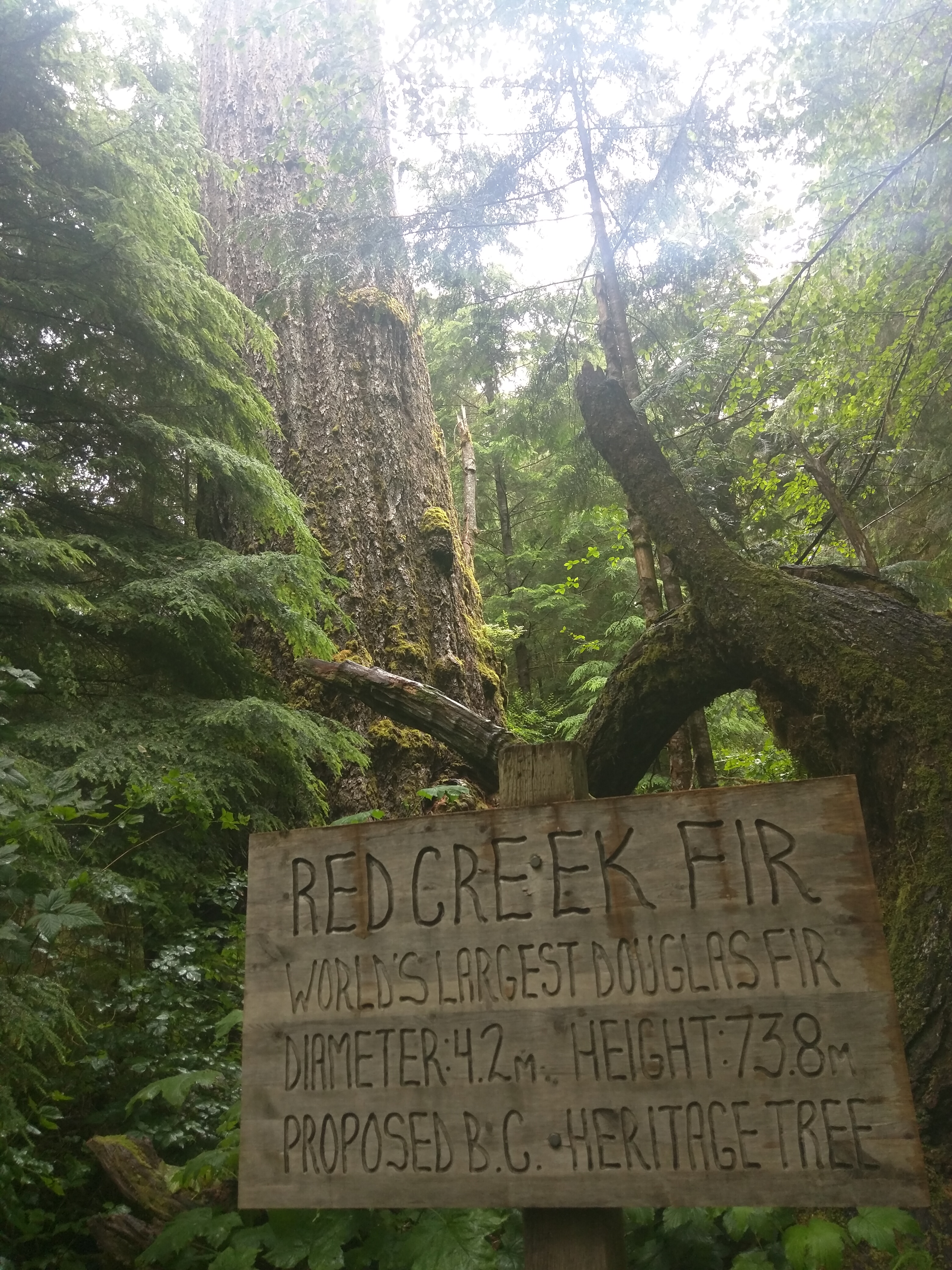 Sign by TJ Watt.